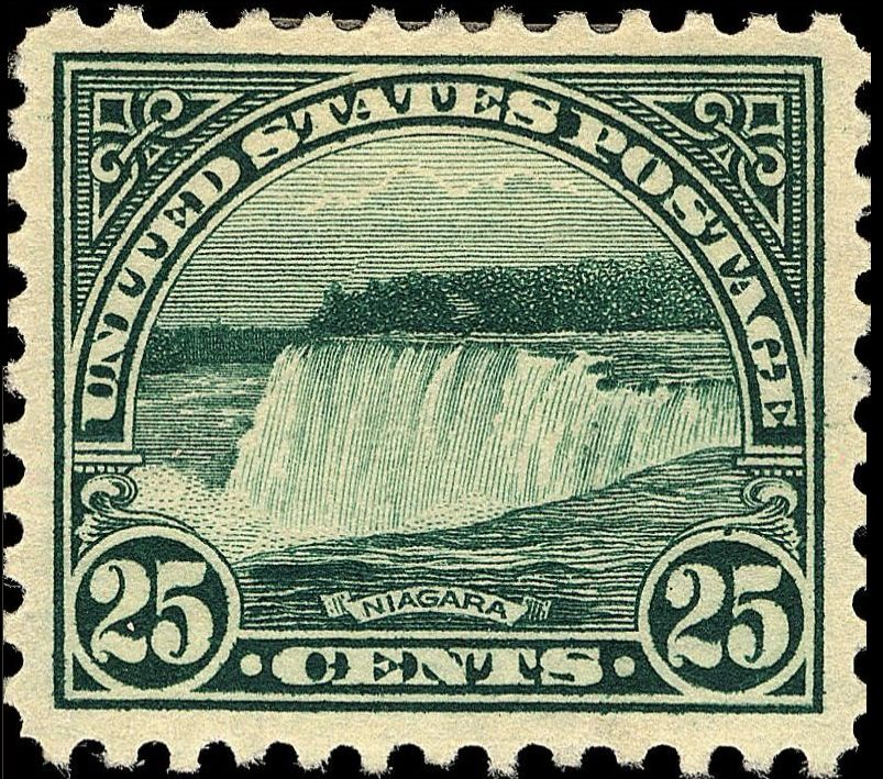 U.S. Postage stamp, Niagara Falls issue, 1922, 25c, yel'grn